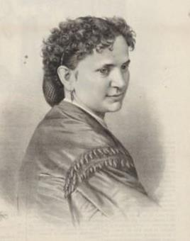 Portrait of the Italian soprano, Angiolina Ortolani-Tiberini (1834-1913)